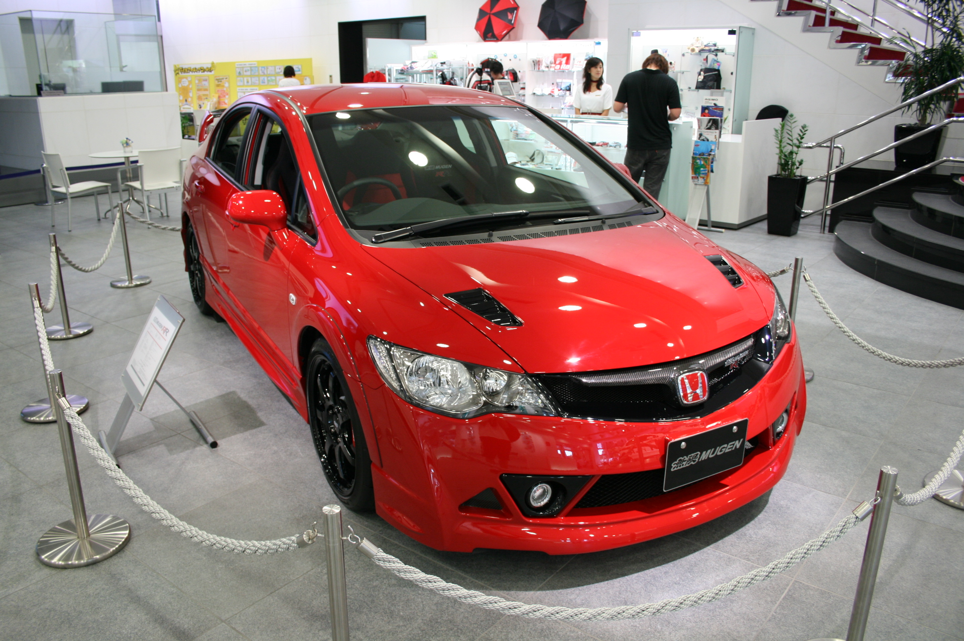 Civic Mugen RR